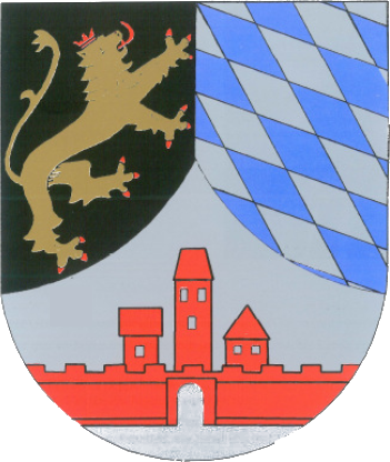 Coat of arms of the village of Horn (Hunsrueck)